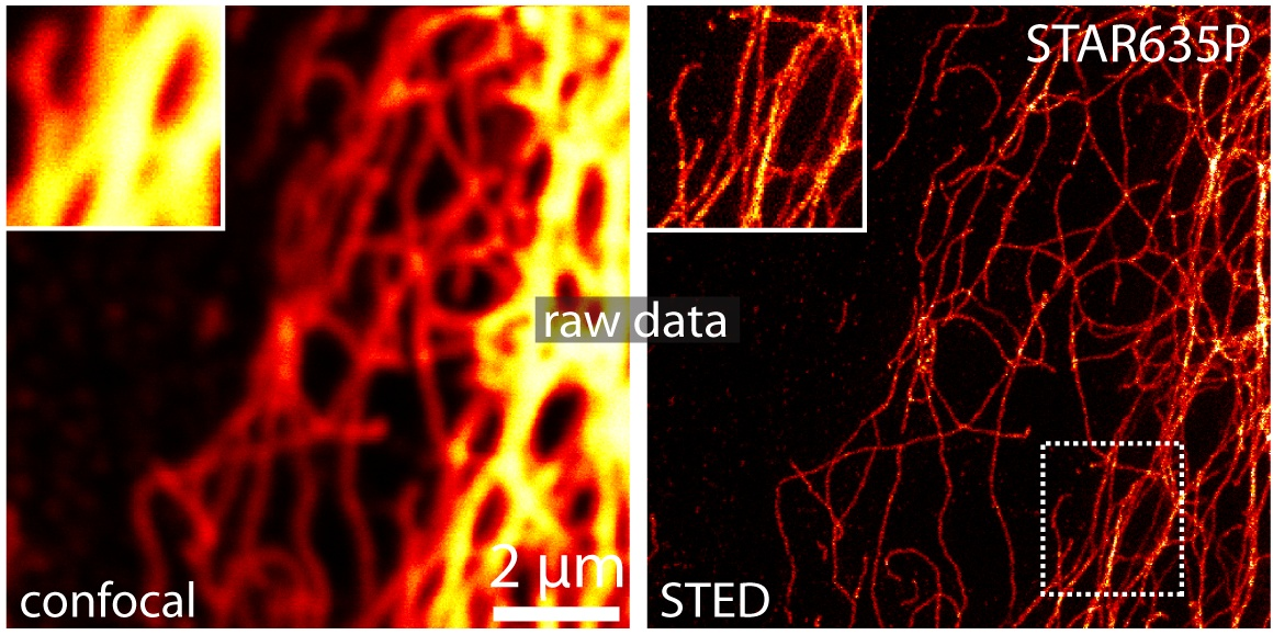 This image shows the resolution gain possible with STED microscopy over confocal microscopy. Confocal raw data is on the left side and STED raw data on the right. The dye is Abberior STAR635P. The optical resolution of the STED image is 25nm or smaller as can be seen from diameter of the single dots (antibody clusters).